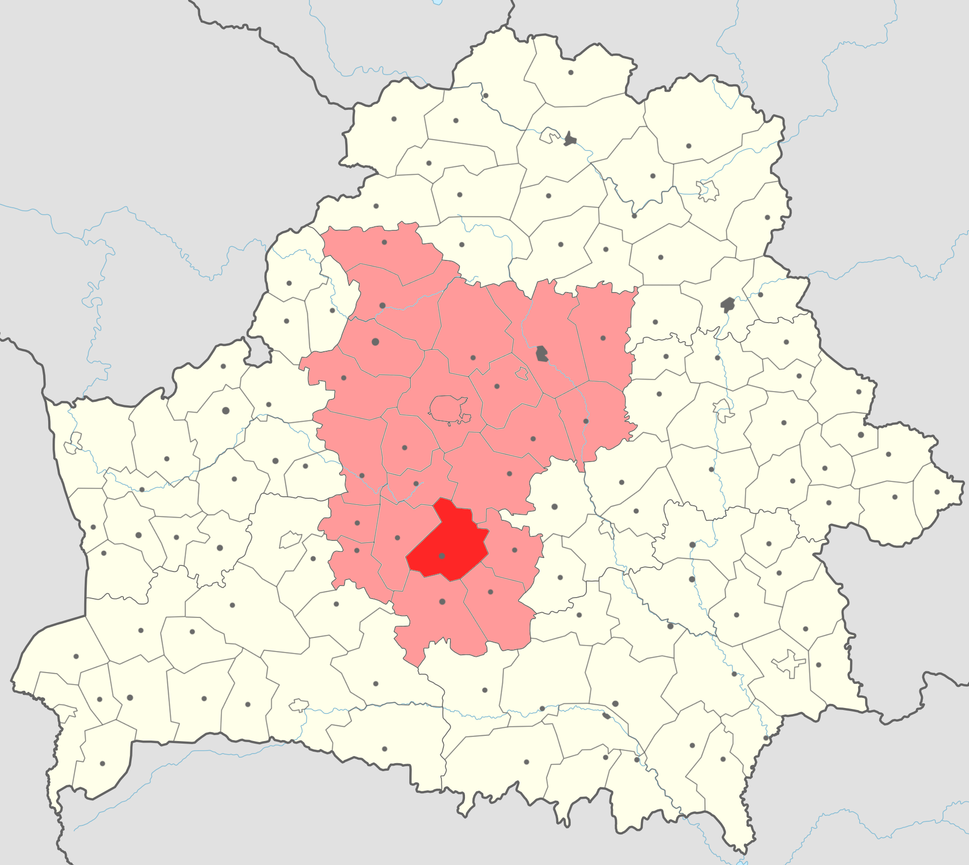 Map of Sluck rayon (in red) with Minsk voblast' (in light red) on the map of Belarus.